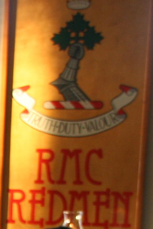 Royal Military College of Canada Redmen plaque at the Royal Military College of Canada